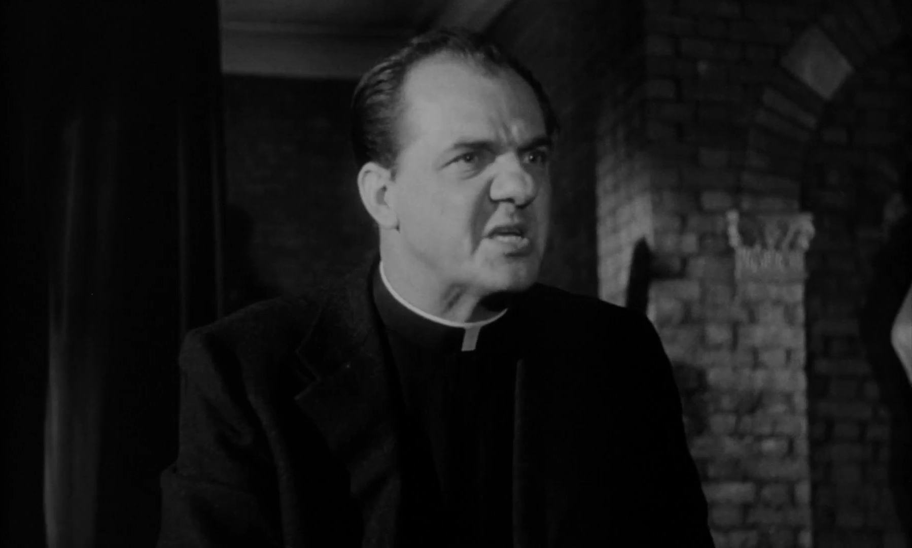 Karl Malden in a screenshot from the trailer for the film On the Waterfront.